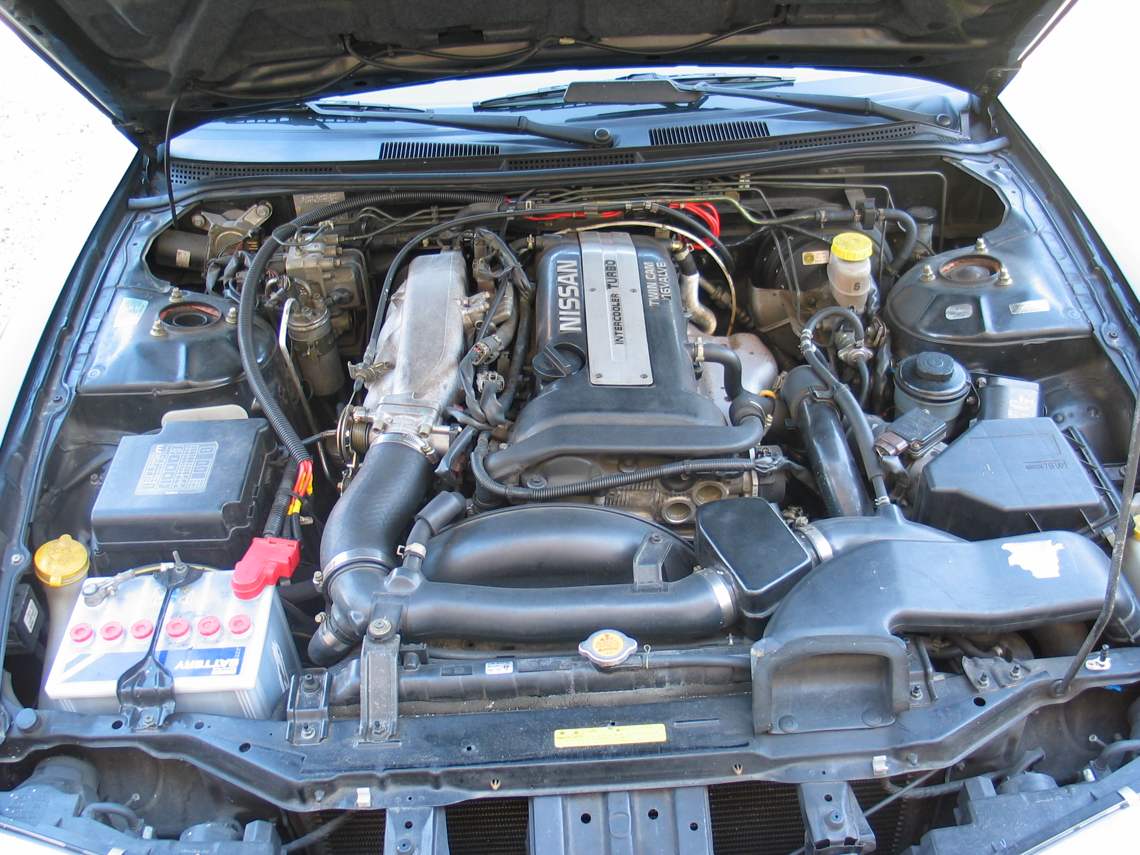 Moteur SR20DET d'origine installé sur une Nissan 240SX S14a (Engine bay (with SR20DET) of a stock Nissan 240SX S14a)